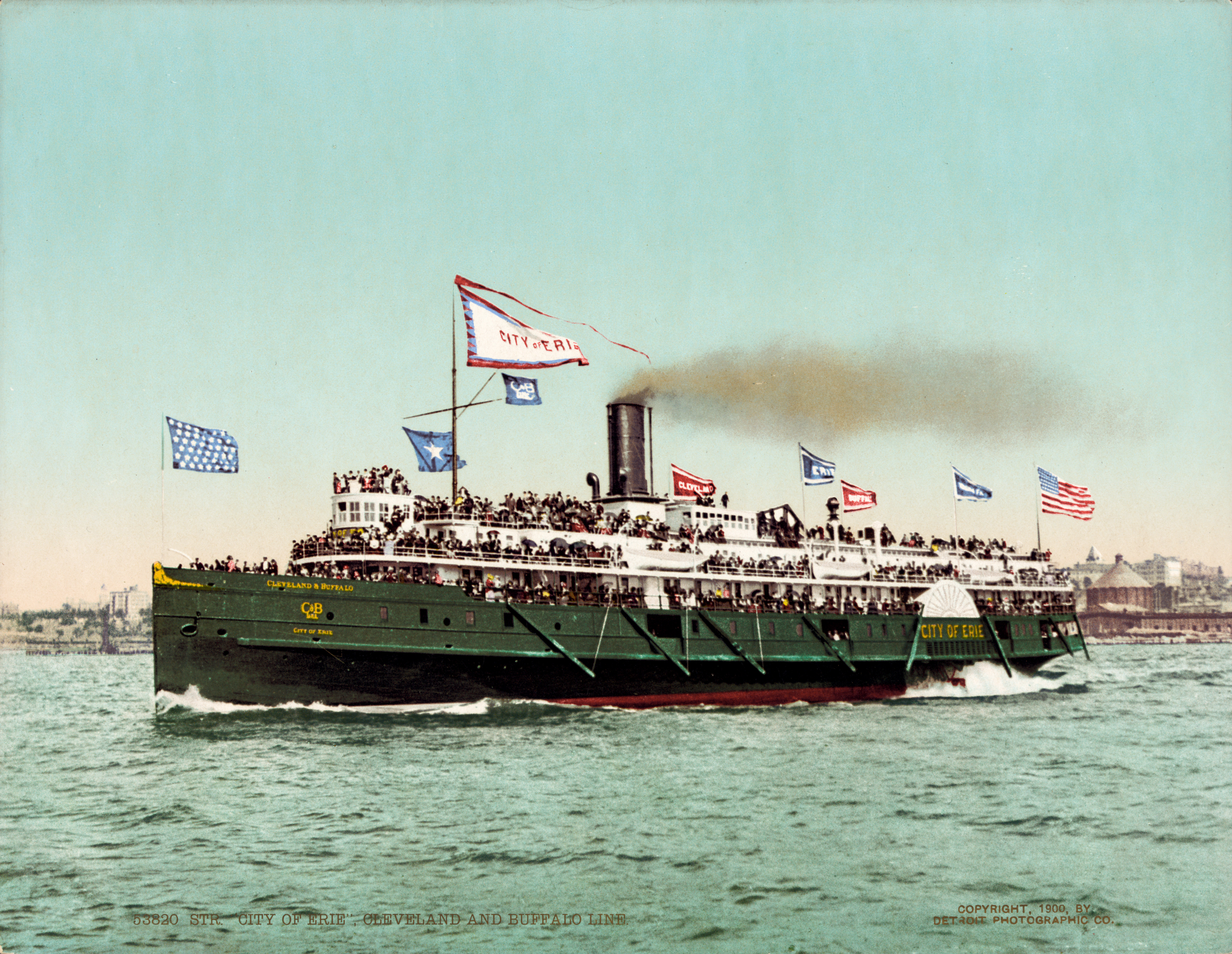 53820. Str. "City of Erie". Cleveland and Buffalo Line. Paddle steamer "City of Erie", winner of a famous race from Cleveland to Erie against the White Star Line steamer "Tashmoo".